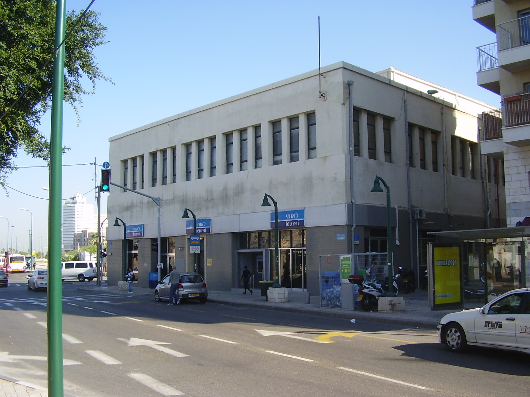 bank leumi in jerusalem boulevard, jaffa